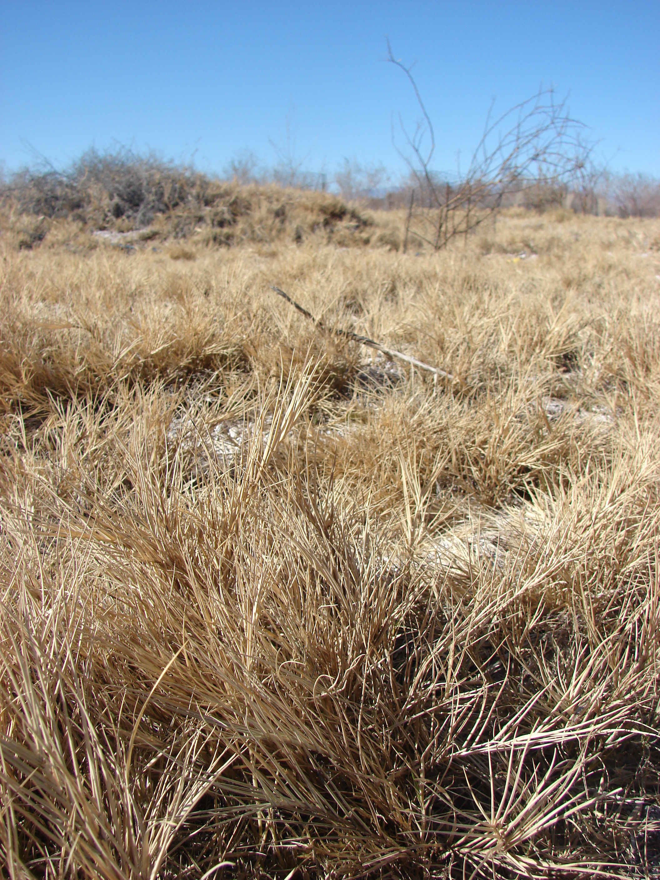 Distichlis spicata (habit). Location: Nevada, The Wash